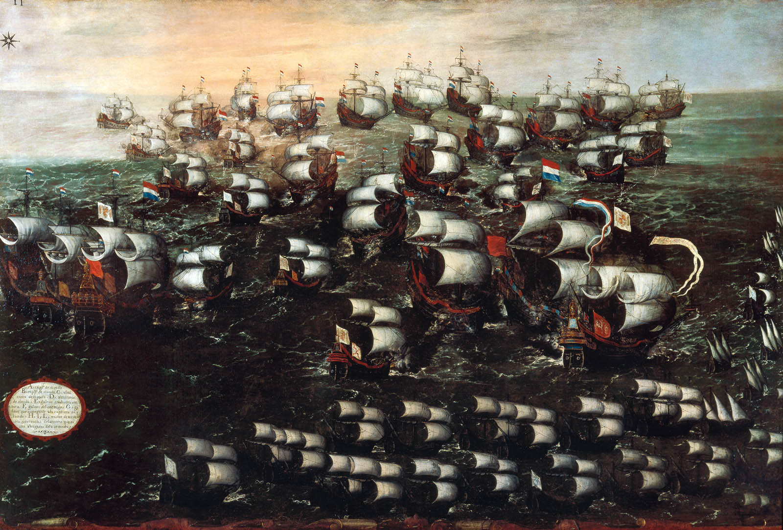 The Battle of Albrolhos, 1631, scene II.